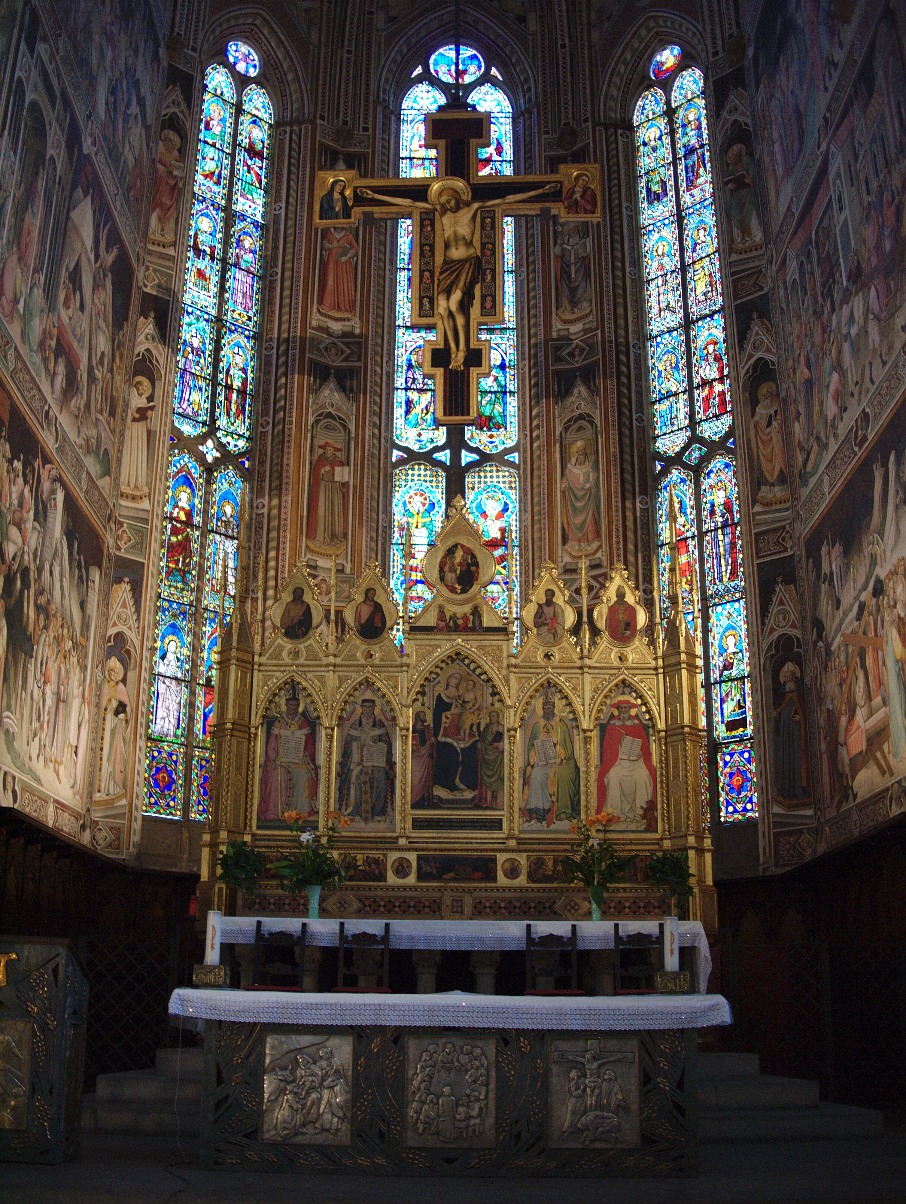 Basilica di Santa Croce altar and crucifix